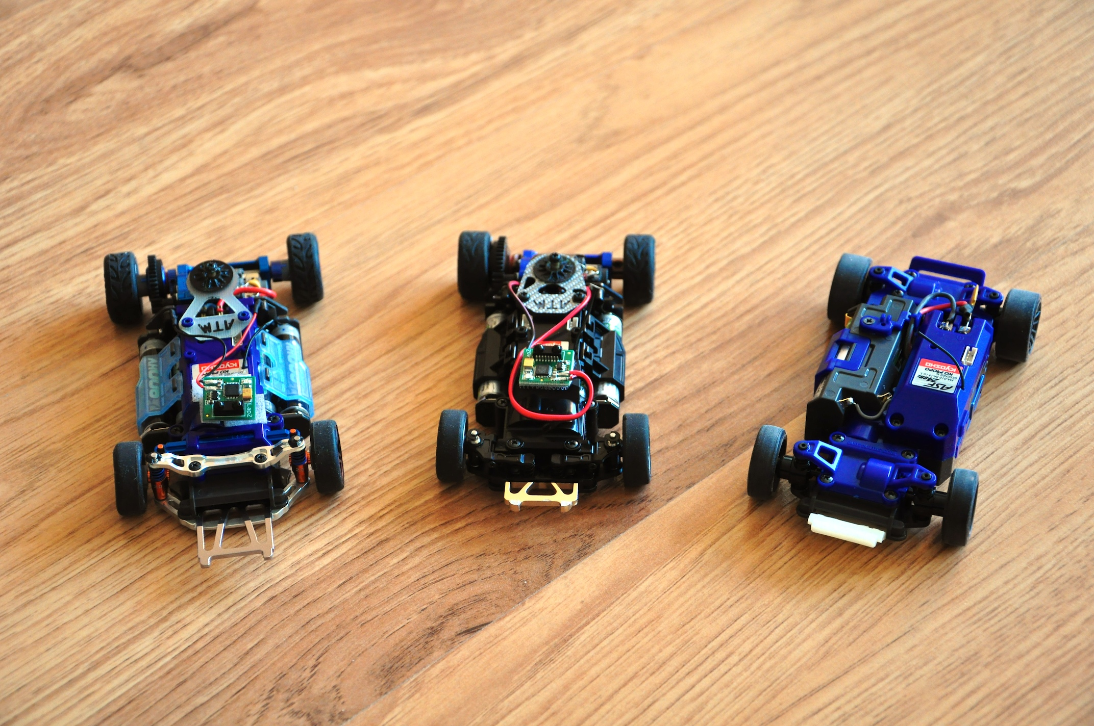 Mini-Z Chassis Typs (MR-02, MR-03, AWD)